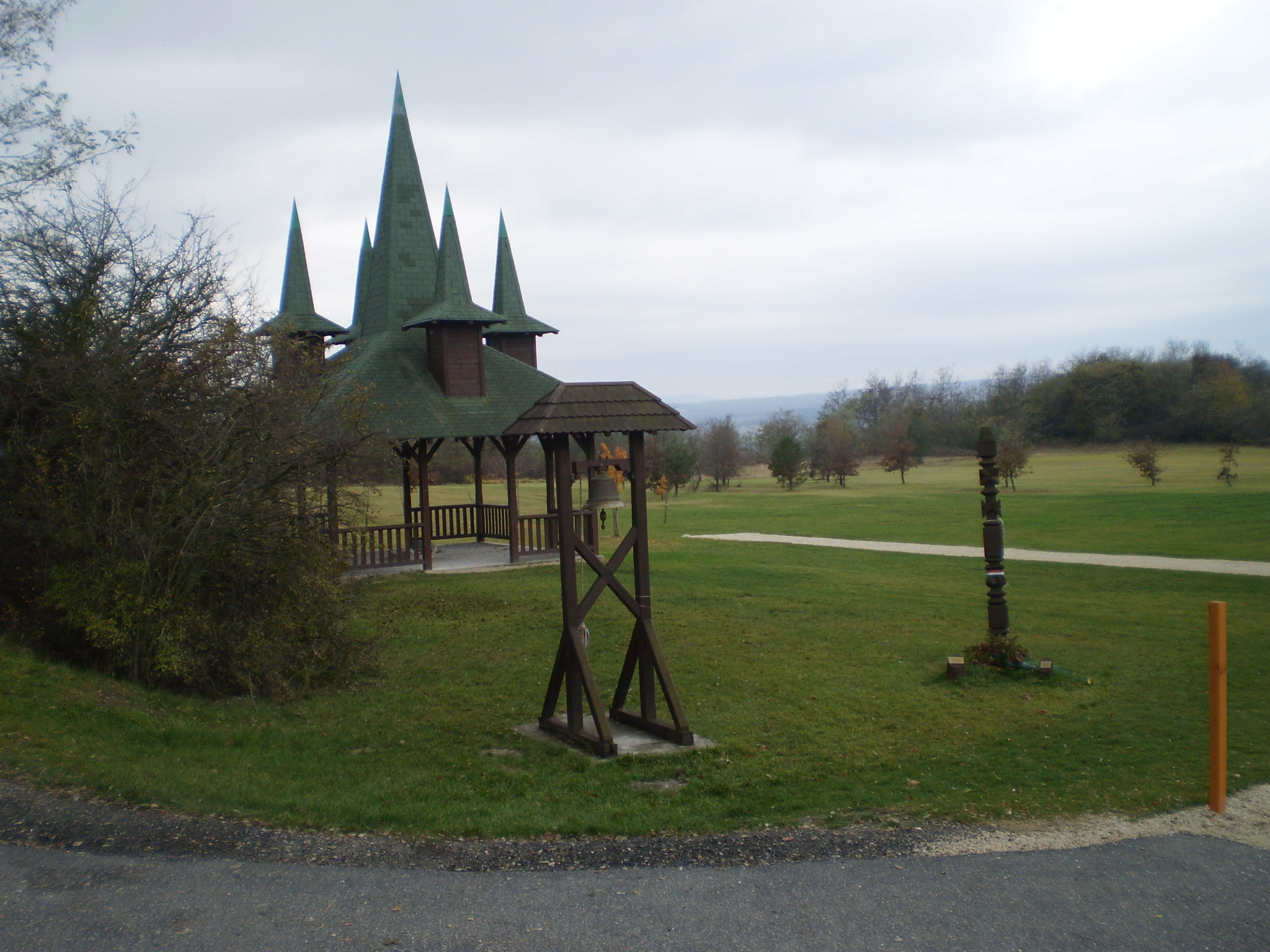 Bell in the memorial park, near Sopron, Hungary